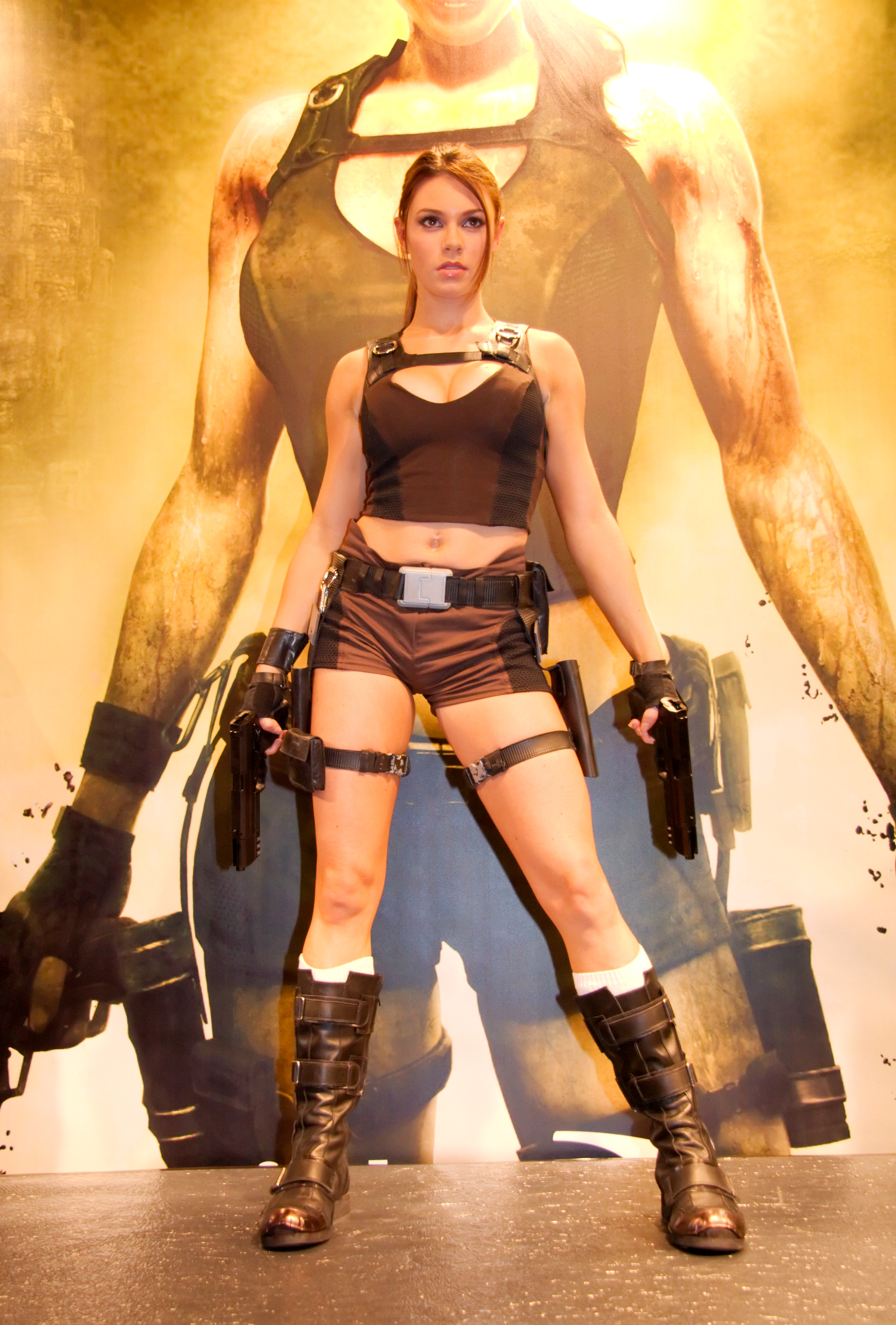 Alison Carroll, the official Lara Croft model for Tomb Raider: Underworld at Festival du jeu vidéo 2008 (Paris, France).